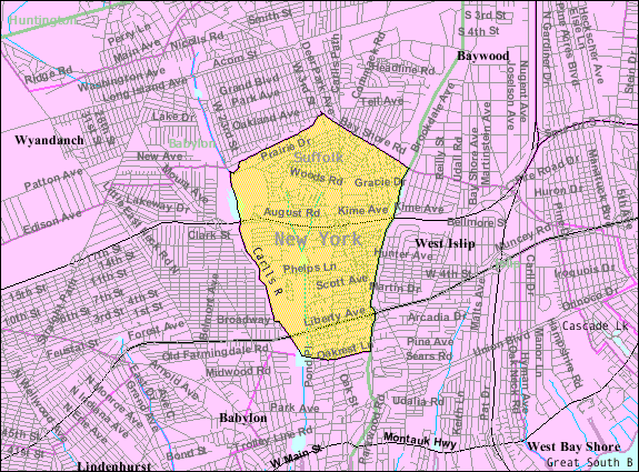 U.S. Census 2000 reference map for North Babylon, New York